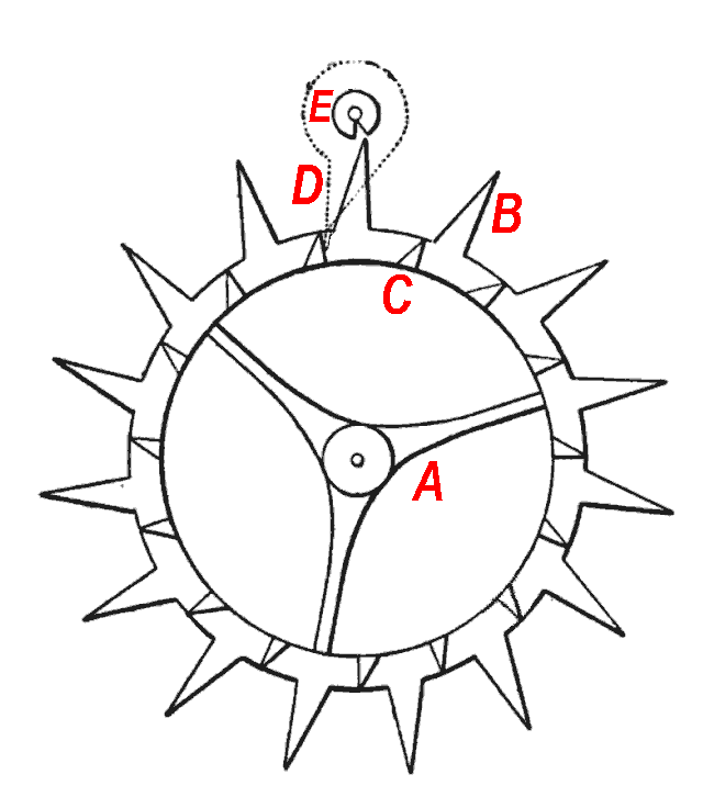 Drawing of duplex escapement, invented by Thomas Tyrer around 1760. Parts: (A) escape wheel, (B) locking tooth, (C) impulse tooth, (D) pallet, (E) ruby roller. The pallet is shown in dotted lines because it is mounted above the escape wheel and ruby roller. The pallet and roller are on the balance wheel arbor, but the balance wheel itself is not shown. Alterations: using a graphics editor I drew in one of the impulse teeth that had apparently been left out of the original drawing, and replaced the original letters identifying parts with colored ones in a different order.